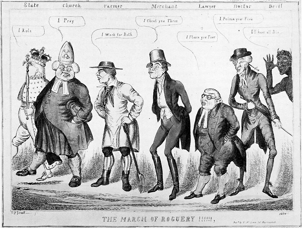 "The March of Roguery", an 1830 caricature by C. J. Grant (Charles Jameson Grant), based on the old British inn-sign of the "Five Alls" or "Four Alls". (This occurred in a number of variations, but usually included a monarch saying "I rule (for) all" or "I govern all", a bishop or minister saying "I pray for all", a soldier saying "I fight for all", and a farmer saying "I pay for all". For a modern version, see File:Chepstow - The Five Alls inn sign - .uk - 484144.jpg.) Text in image: State [king, holding sceptre] "I Rule" Church [bishop, with "£10000" under the crook of his arm] "I Pray" Farmer [in smock] "I Work for Both" Merchant "I Cheat you Three" Lawyer "I Fleece you Four" Doctor "I Poison you Five" Devil "I'll have all Six"